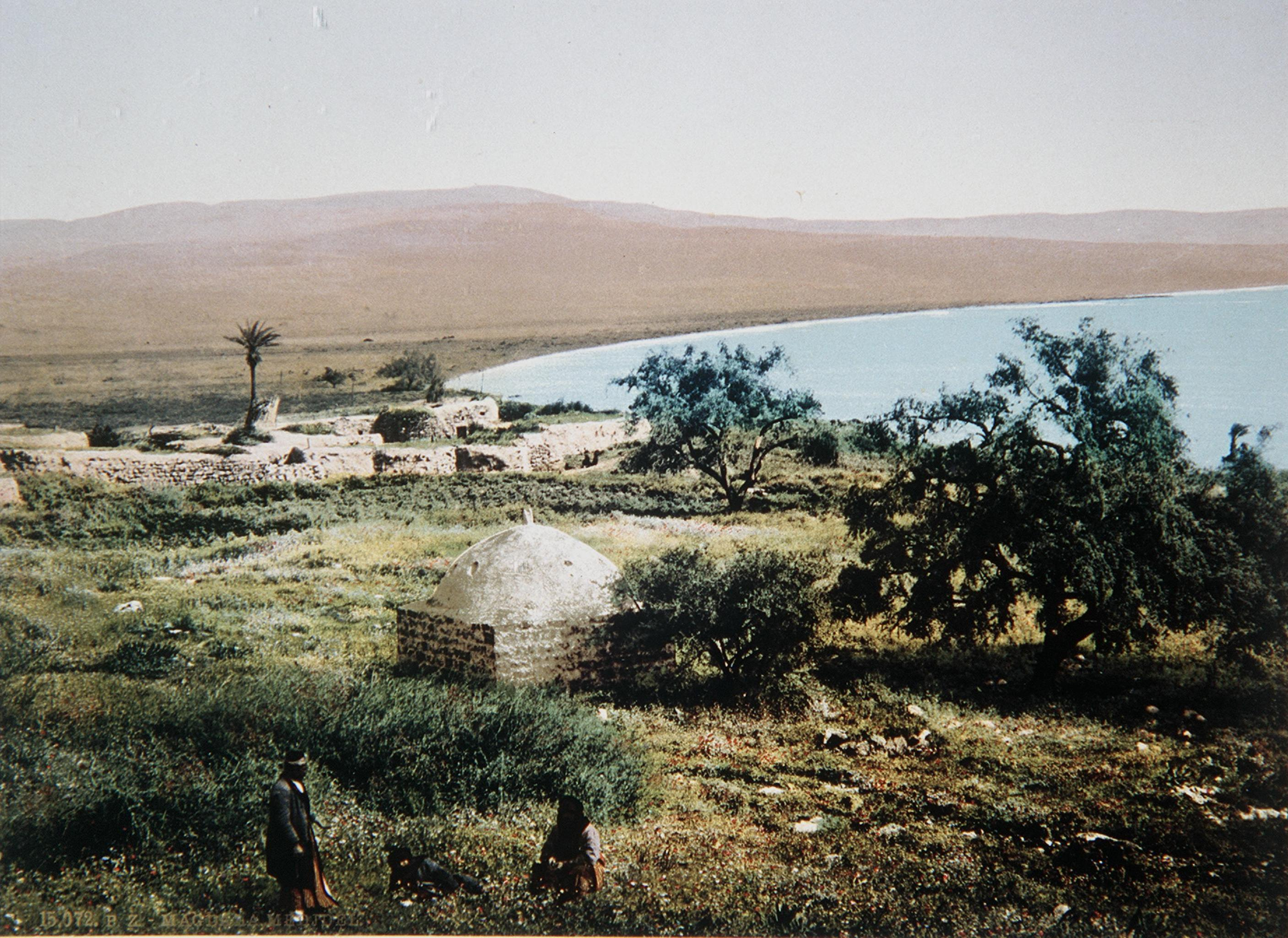 COLOR PHOTO OF THE SEA OF GALILEE TAKEN IN THE LATE 19TH CENTURY BY THE FRENCH DOCUMENTER OF PEOPLE AND PLACES IN PALESTINE, BONFILS. צילום צבעוני מסוף המאה ה19 של הצלם הצרפתי בונפיס אשר תעד במצלמתו את נופי ארץ ישראל ותושביה. בצילום, נוף ימת הכינרת בגליל.